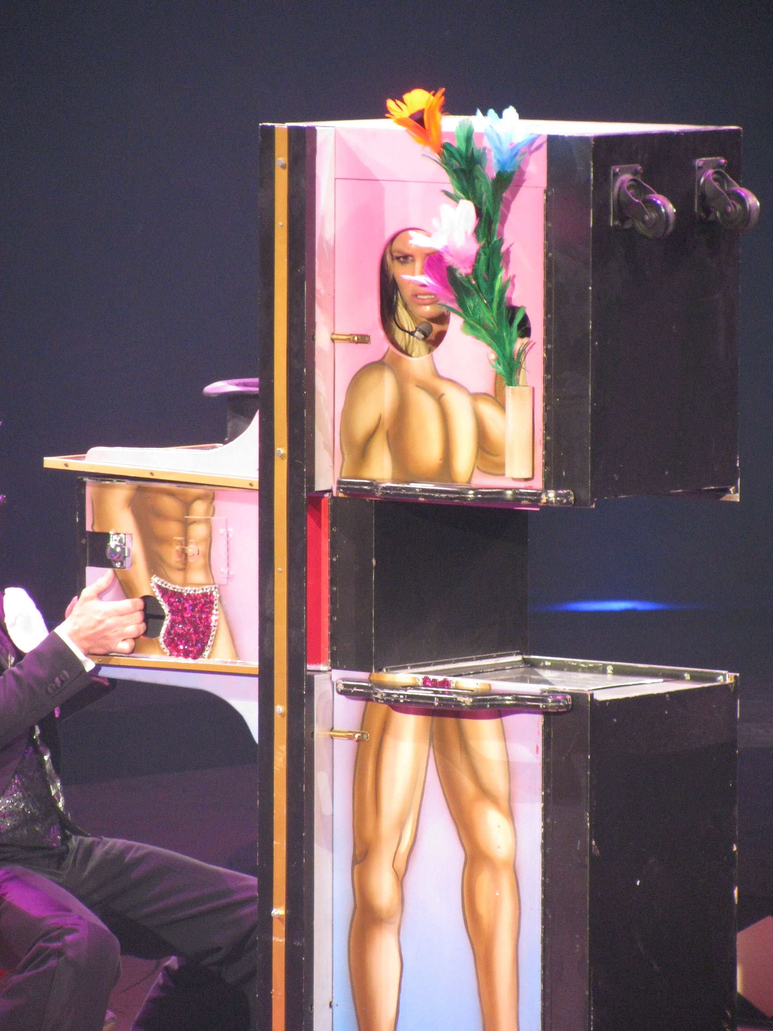 Spears doing magic tricks